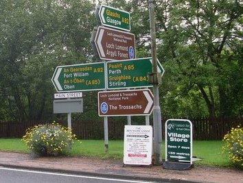 Road signs in Crianlarich Note the placenames in English and Gaelic. Despite its minuscule size, Crianlarich is seen as an important crossroads in Scotland - as these signs point out, it's in some ways like the gateway to the West Highlands.